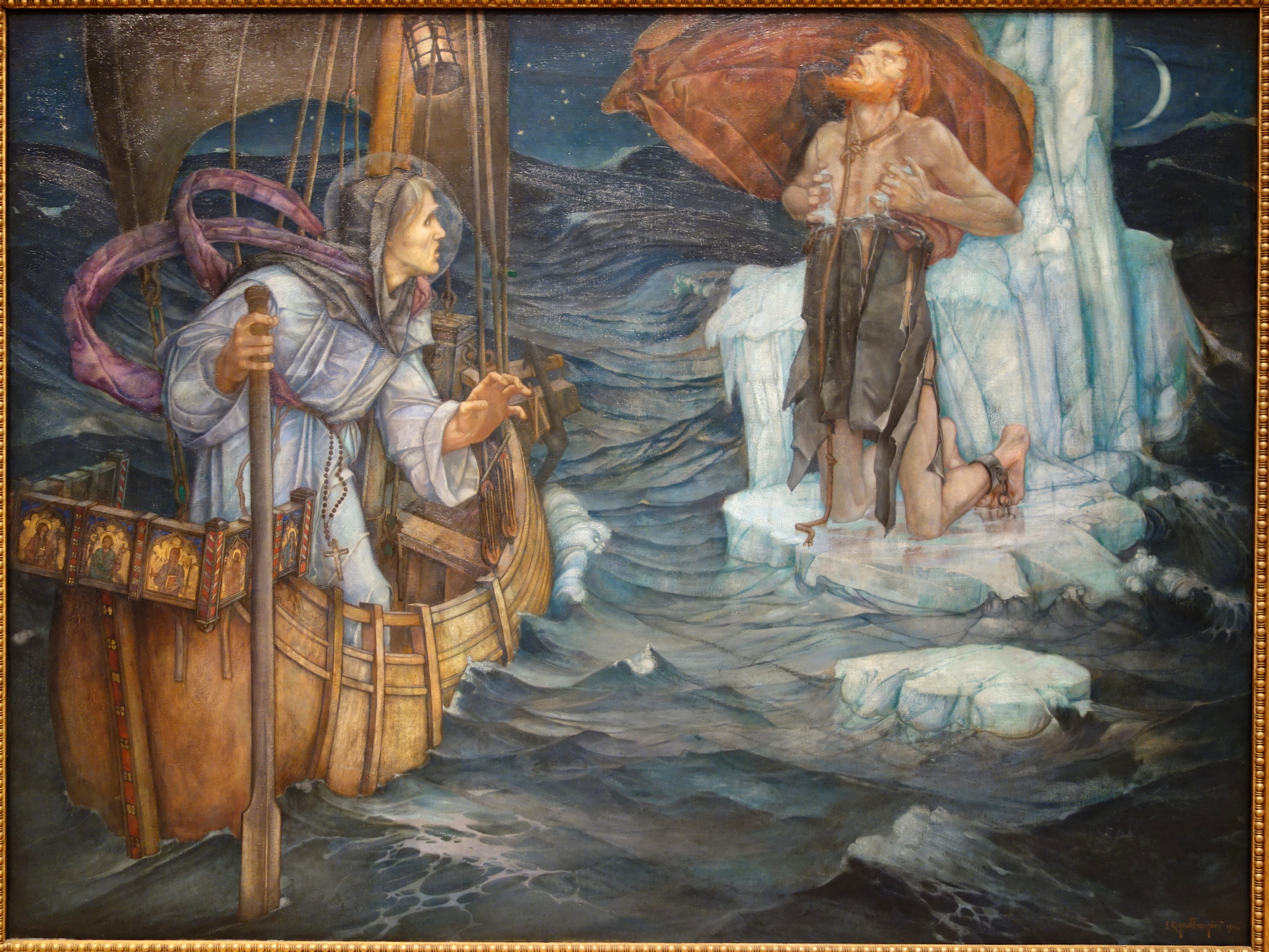 Exhibit in the Chazen Museum of Art, University of Wisconsin-Madison, Madison, Wisconsin, USA. This artwork is old enough so that it is in the public domain.